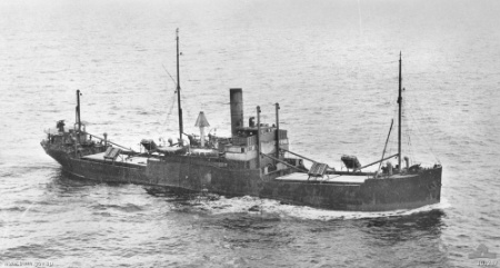 Australian cargo steamer SS Fingal. This ship was sunk by a Japanese submarine off the Australian east coast on 5 May 1943. 27 members of her crew were killed in this sinking. AWM image 303287